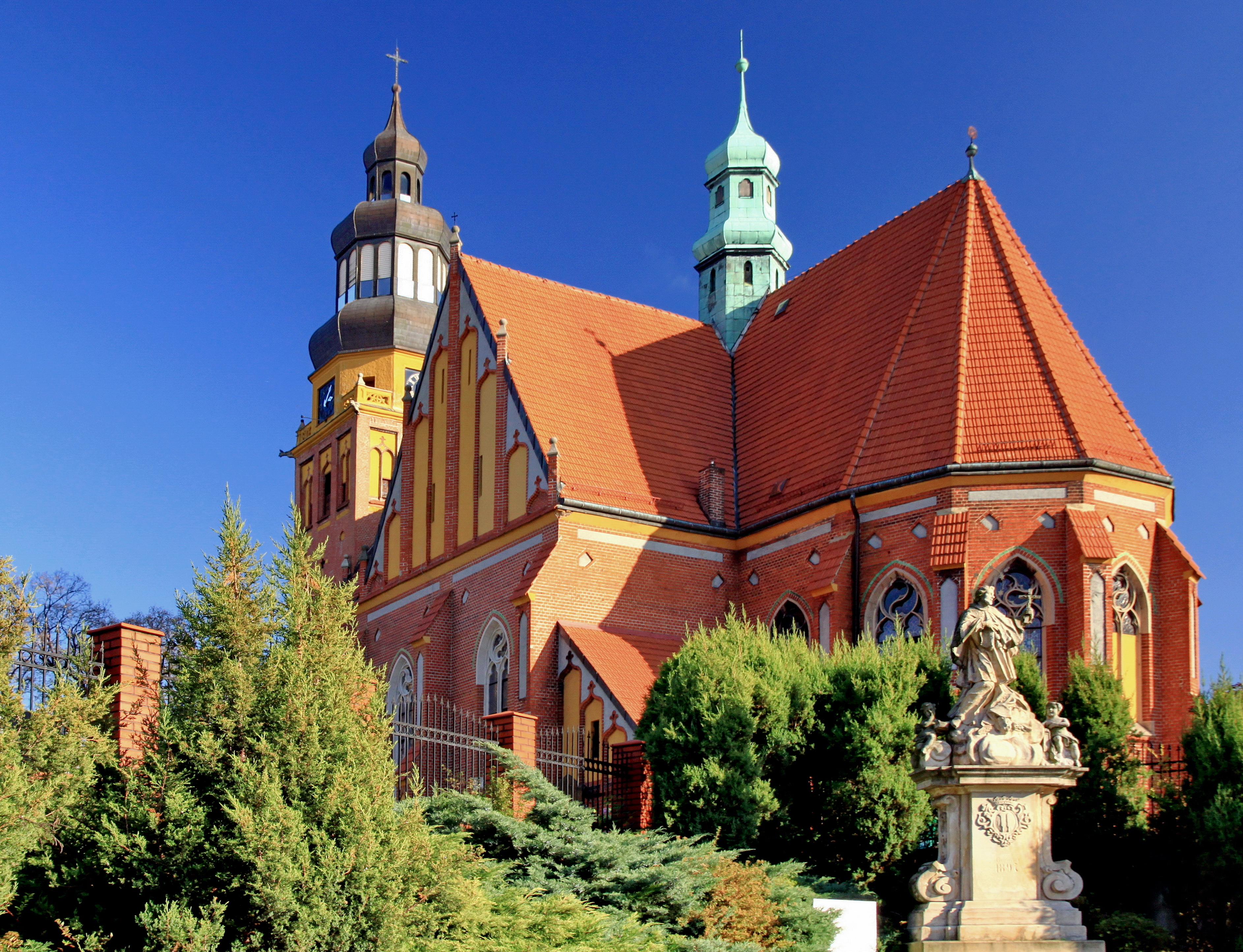 Wodzisław Śląski, parish Church of the Assumption of Saint Mary, build in 1909-1911